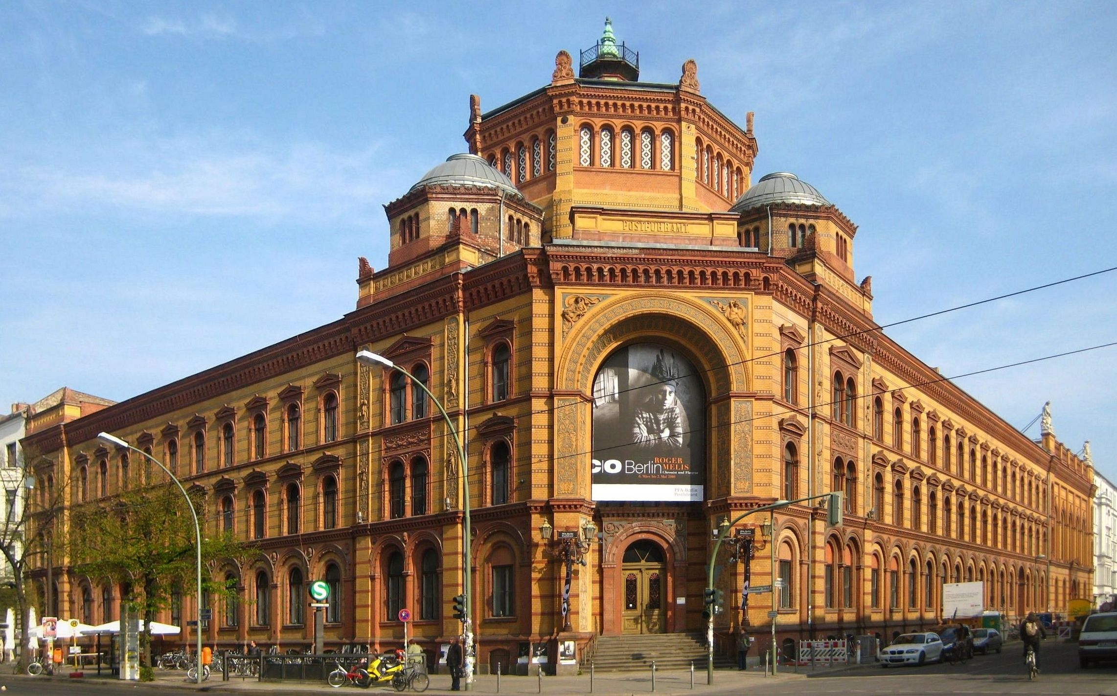 The Postfuhrtamt (Postal Carriage Office) at Oranienburger Straße No. 35-36, corner of Tucholskystraße (on the right), in Berlin-Mitte. It was built from 1875 to 1881 to a design by Carl Schwatlo. The building has been designated as a historic landmark.